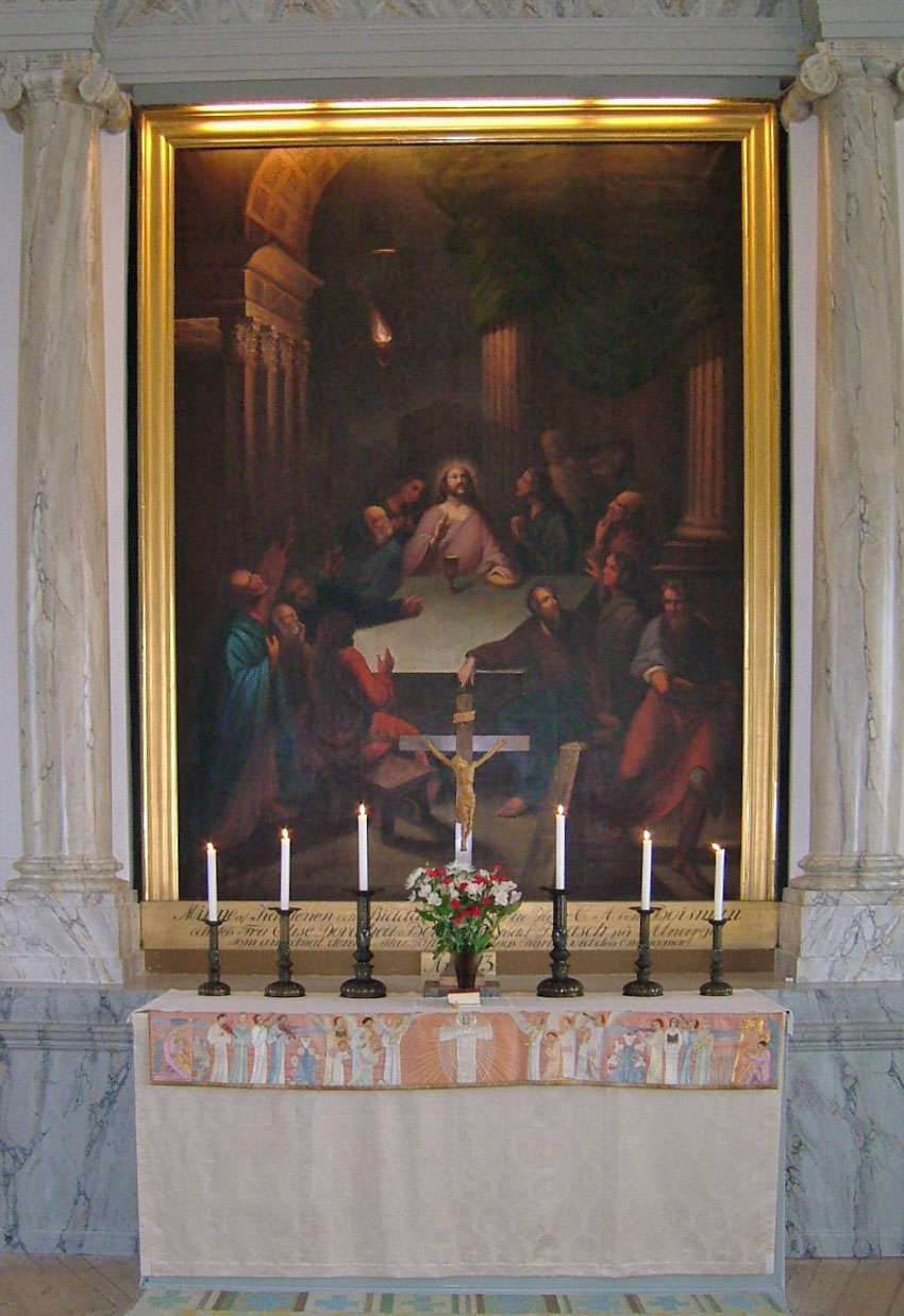 Tvings Church.Altarpiece of S. Andersson and motives: The institution of the Eucharist.